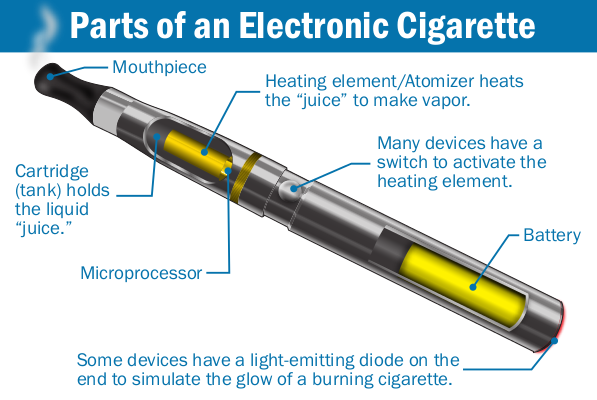 Parts of a second generation electronic cigarette, copied from a FEMA pdf.